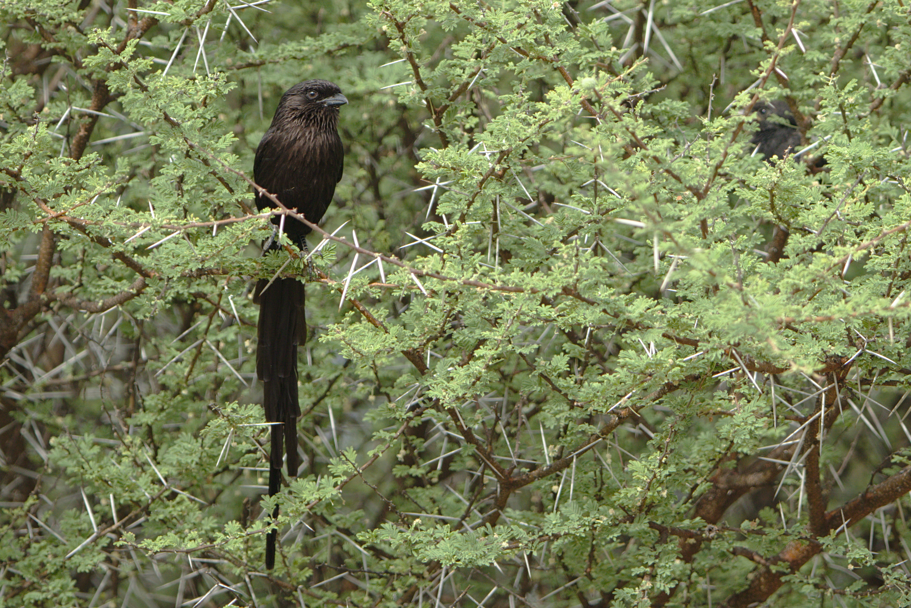 Magpie shrike, Urolestes melanoleucus, at Marakele National Park, Limpopo, South Africa